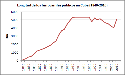 Lenght of public railways in Cuba 1840-2010